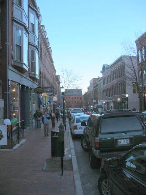 Exchange Street, Portland, Maine, U.S.A.